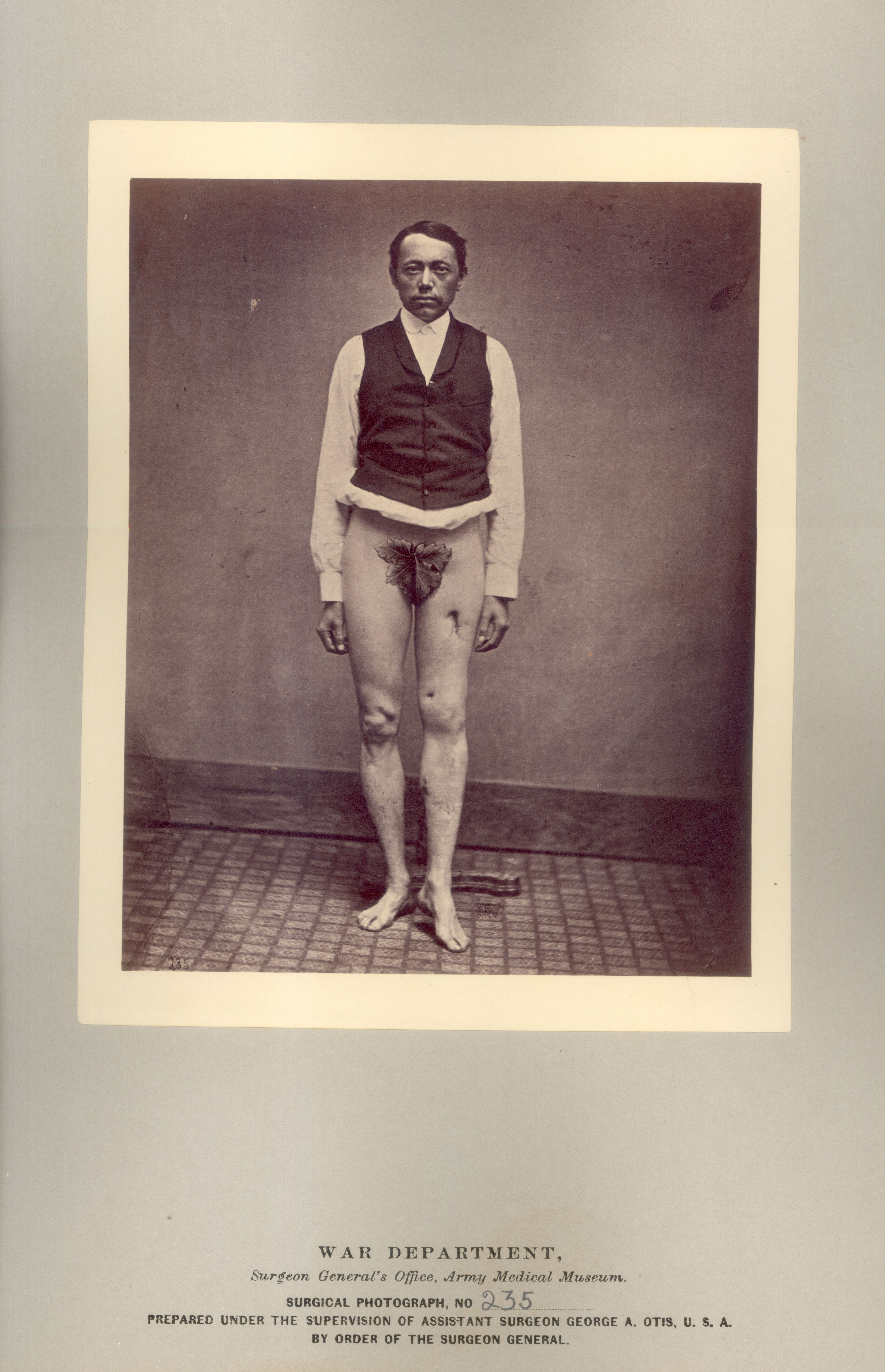 PARTIAL RECOVERY FROM A COMPOUND FRACTURE OF THE LEFT THIGH IN THE UPPER THIRD, CAUSED BY A CONOIDAL MUSKET BALL (Date of Injury 7 NOV 1863)